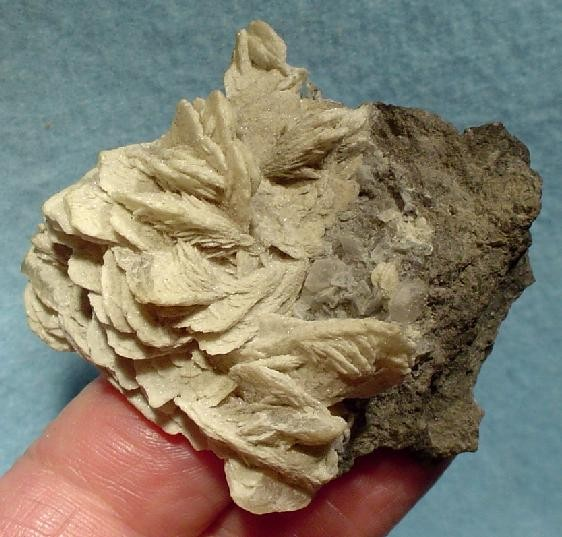 Barytocalcite Locality: Nentsberry Haggs Mine, Nent Valley, Alston Moor District, North Pennines, North and Western Region (Cumberland), Cumbria, England, UK (Locality at ) Size: 5.5 x 5.0 x 2.5 cm. An old-time, showy cluster of flower-like barytocalcite blades on matrix. This classic piece is from the Admiralty Flats of the famous Nentsberry Haggs Mine, Alston Moor, England. Ex. George Elling Collection.